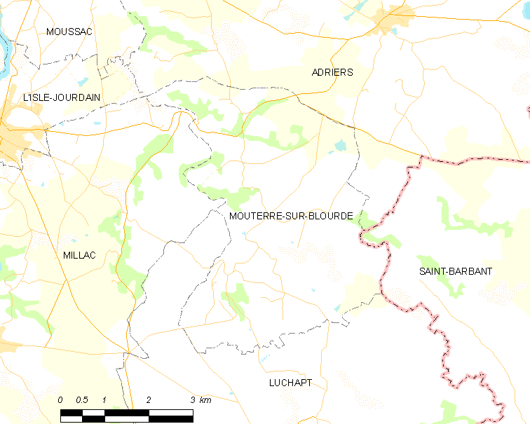 Map of French municipality Mouterre-sur-Blourde